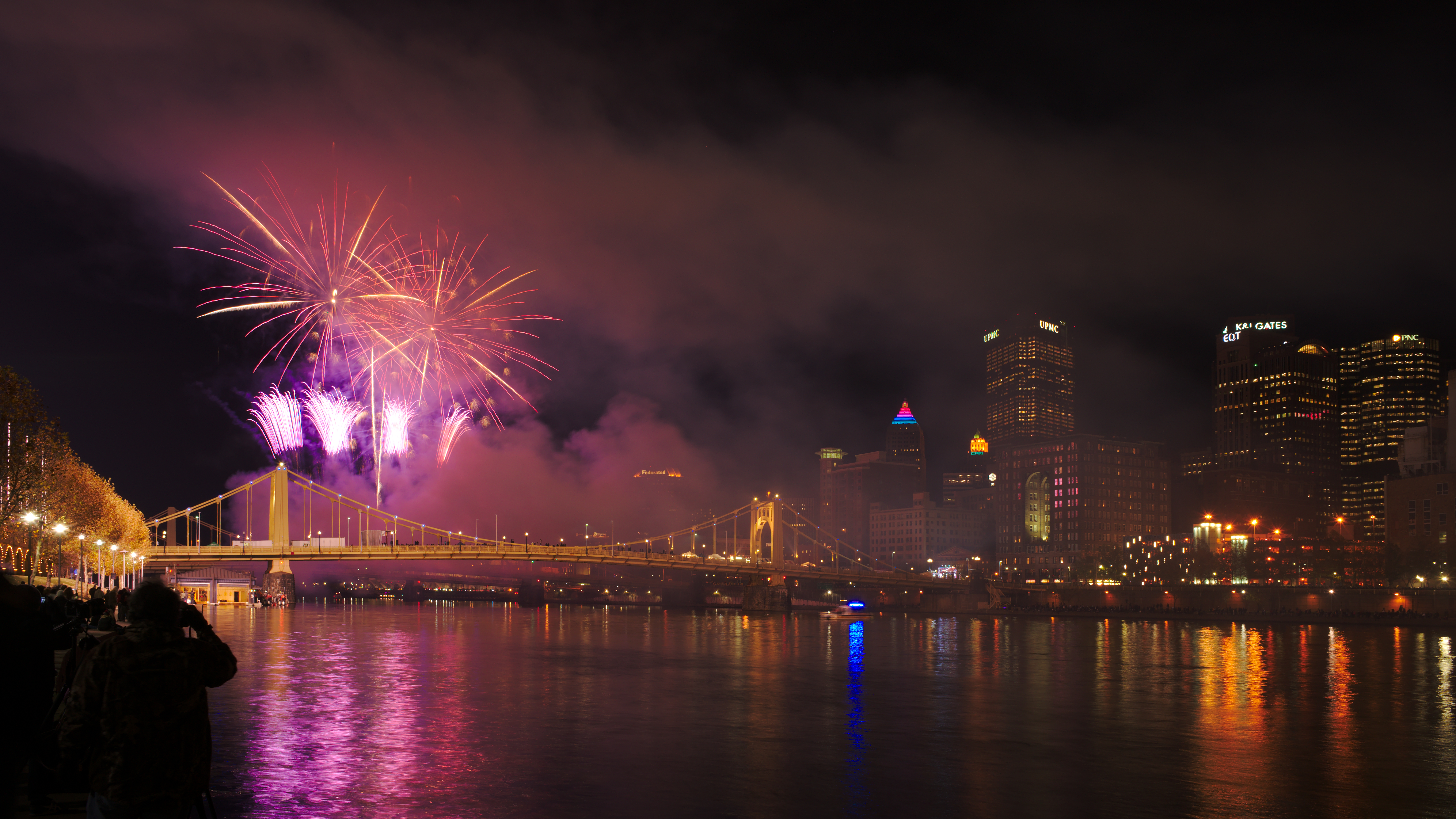 Firsworks at the Pittsburgh Light Up Night, an annual city-wide party to celebrate lighting things up.